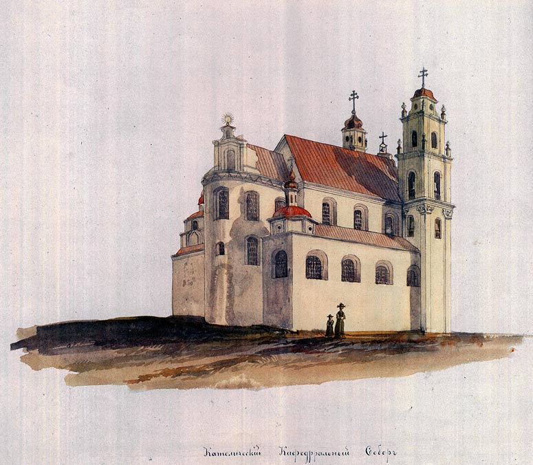 Cathedral of Saint Virgin Mary